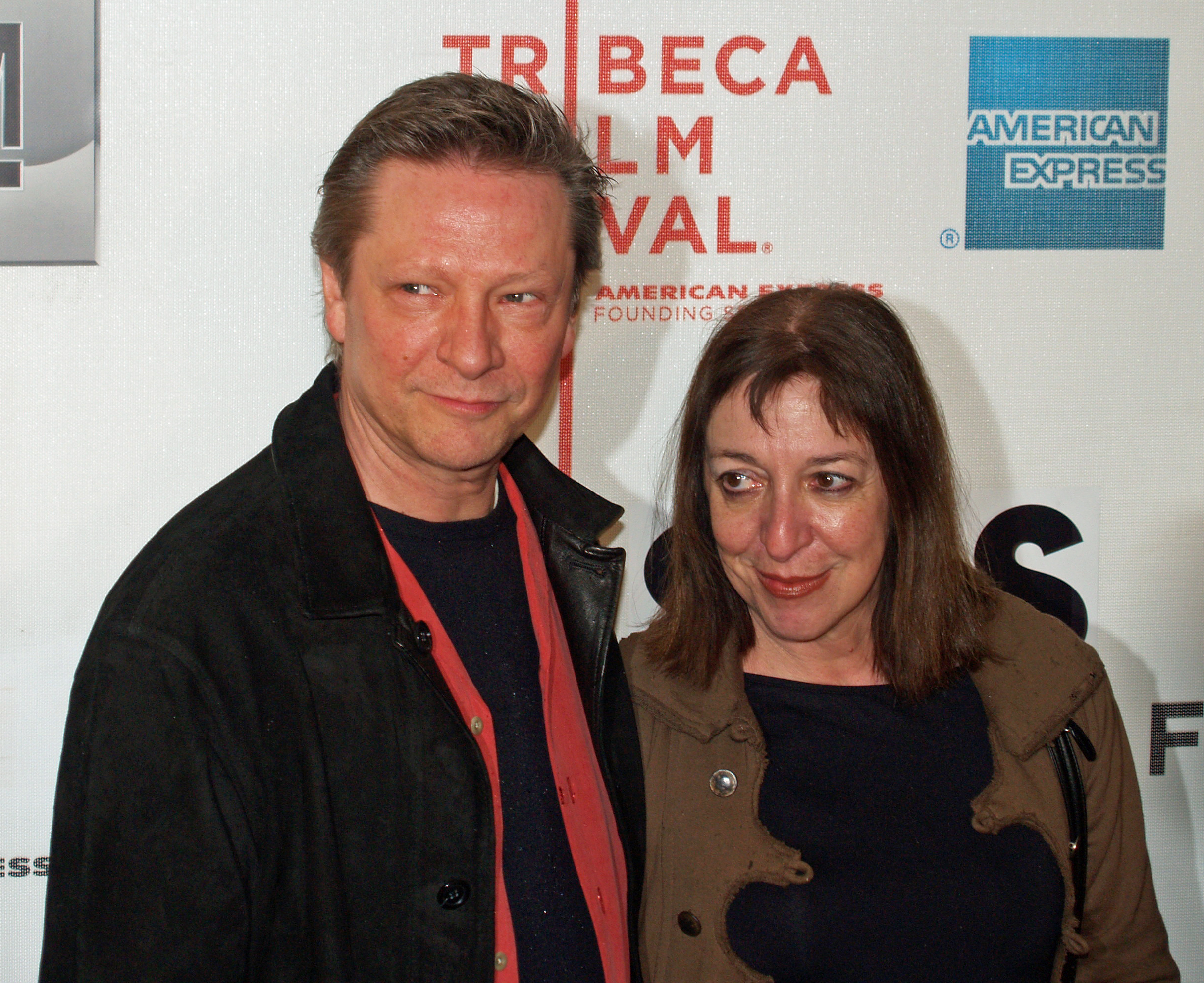 Chris Cooper and Marianne Leone Cooper